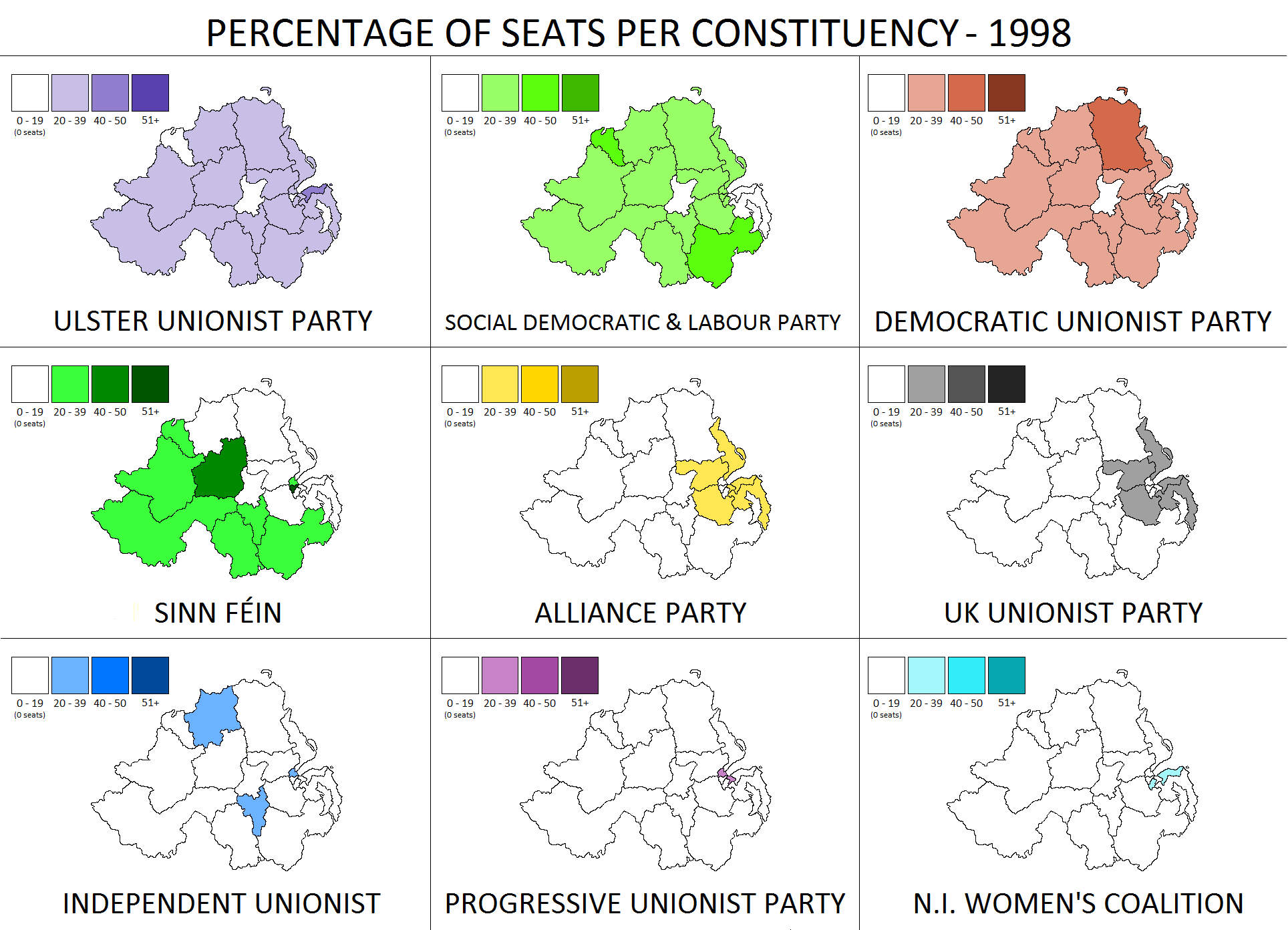 Map of the 1998 Northern Ireland Assembly election.